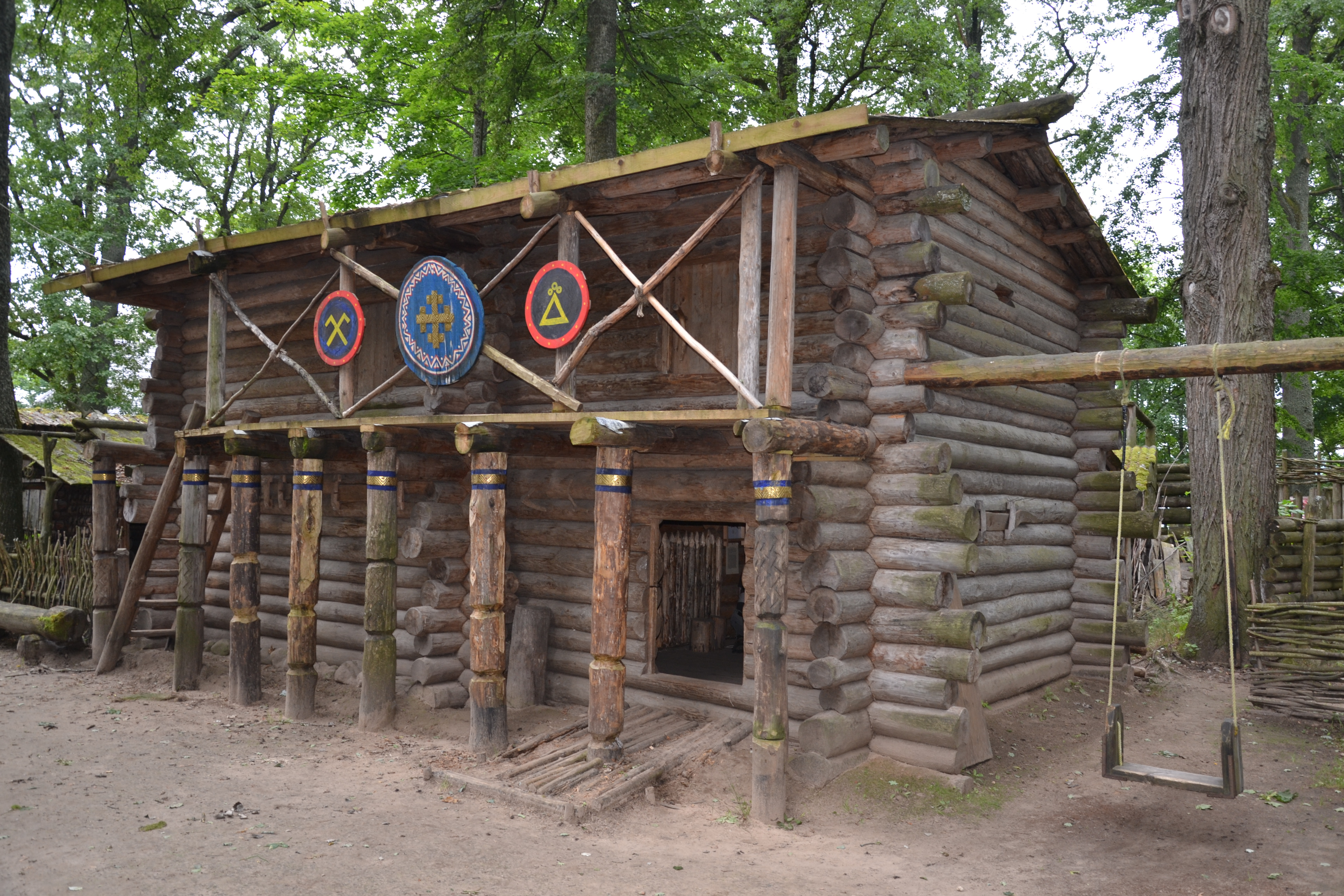 Template:Enu